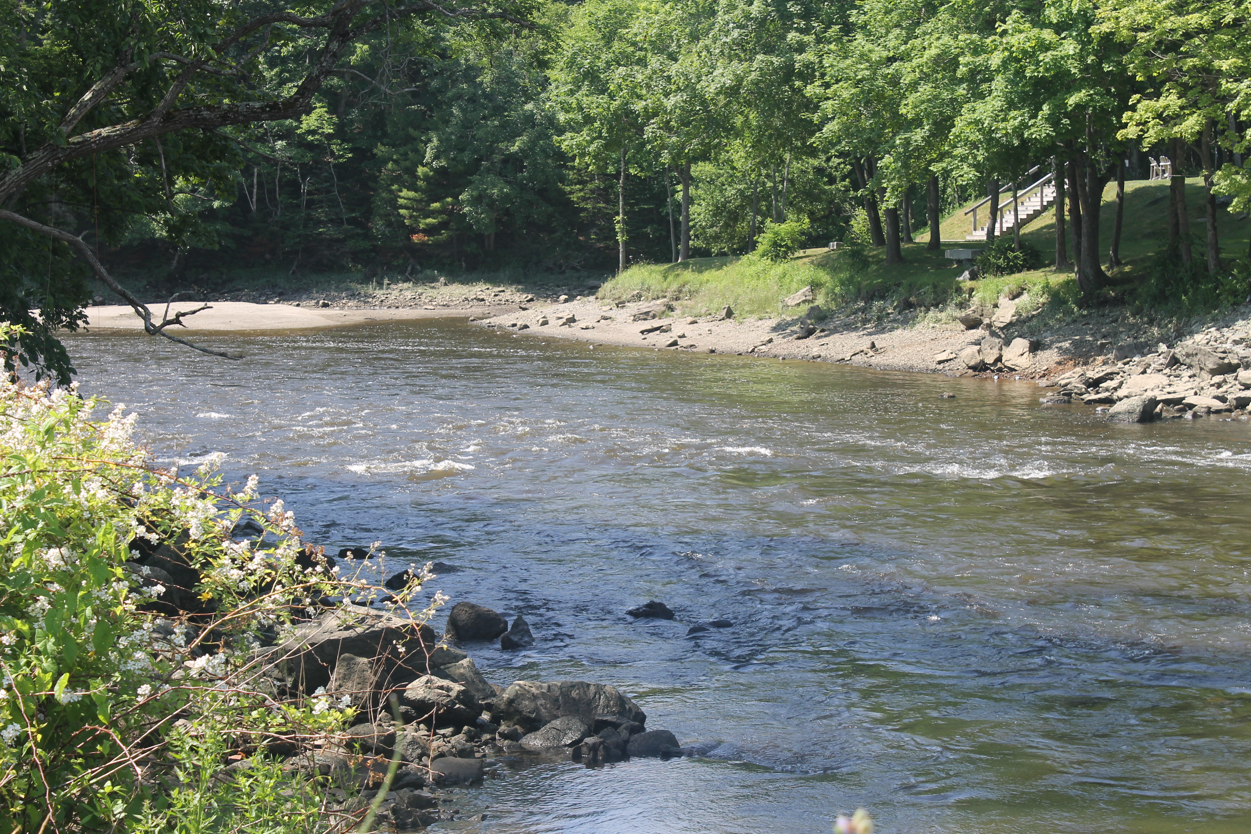 I took photo with Canon camera of Union River in Ellsworth, ME.